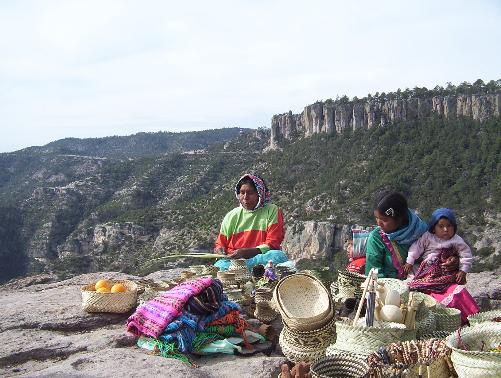 These Tarahumara ladies were selling baskets, blankets, beads, and oranges. They make all of it, and pick the oranges in the bottom of the canyon where it is sub-tropical. While we were up here, one of the ladies climbed up the canyon wall on an old ladder with a child on her back.